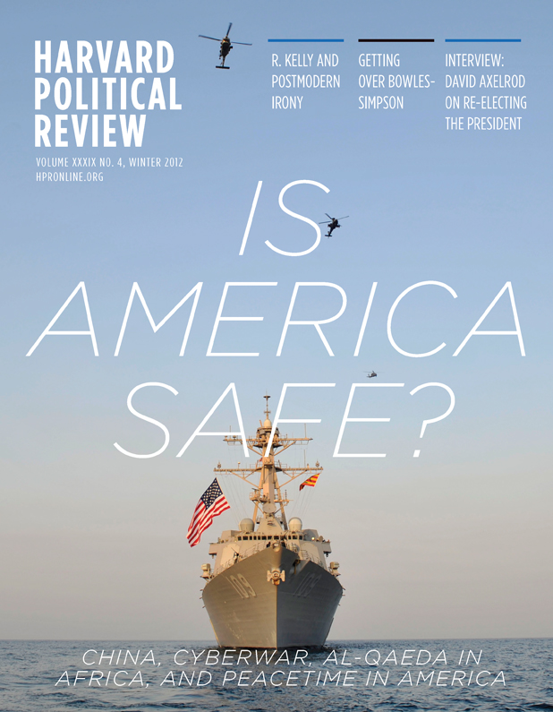 Cover of the 2012 winter issue (Volume XXIX, No. 4) of the Harvard Political Review